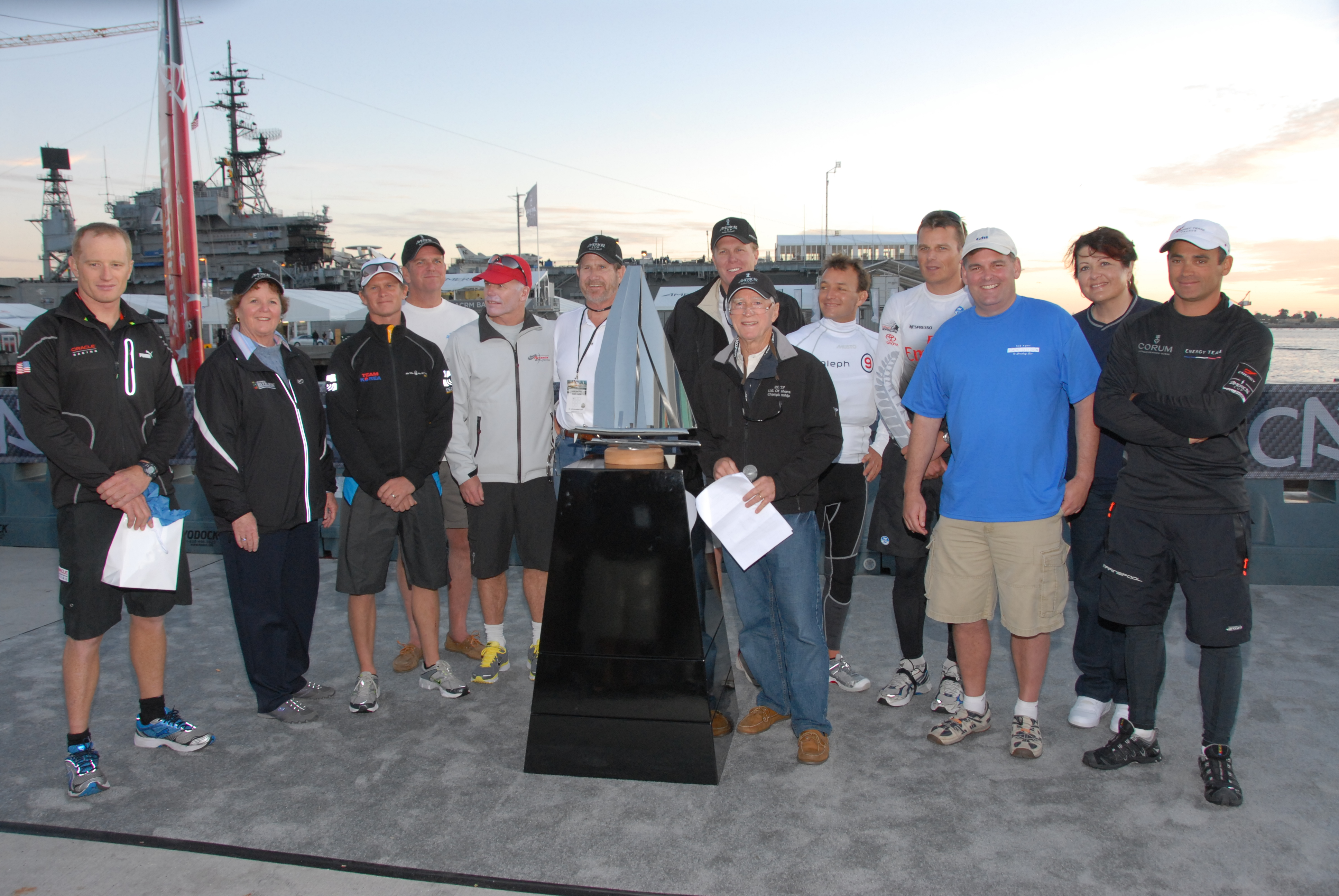 Port Cities Challenge trophy award presentation: Chula Vista Mayor Cheryl Cox, Imperial Beach Mayor Jim Janney, National City Mayor Ron Morrison and San DIego City Councilman Kevin Faulconer were elected officials from Port District member cities who joined Port commissioners Dan Malcolm and Lee Burdick, Chairman of the Board of Sailing Events Association San Diego Chuck Nichols, and sailing team members. (Photo: Dale Frost)